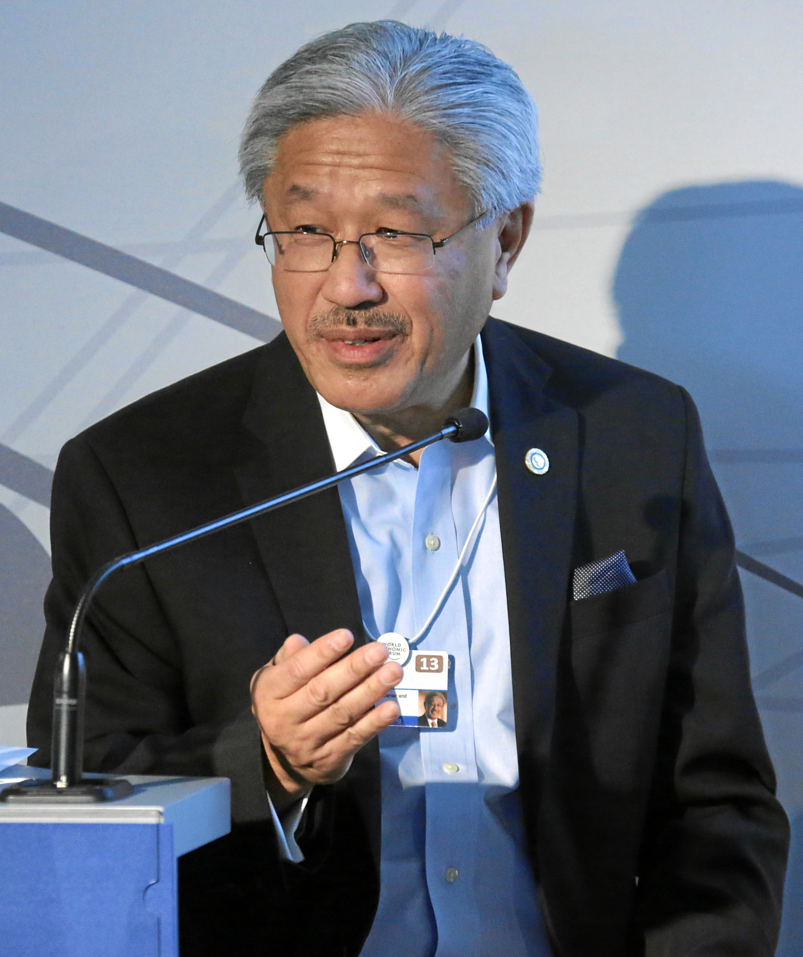 DAVOS/SWITZERLAND, 23JAN13 - Victor J. Dzau (L), President and Chief Executive Officer, Duke University Medical Center and Health System, Duke University, USA; Global Agenda Council on Personalized & Precision Medicine speaks during the interactive session 'The Future of Health -Strengthening Personal Resilience' at the Annual Meeting 2013 of the World Economic Forum in Davos, Switzerland, January 23, 2013.. . Copyright by World Economic Forum. . Remy Steinegger